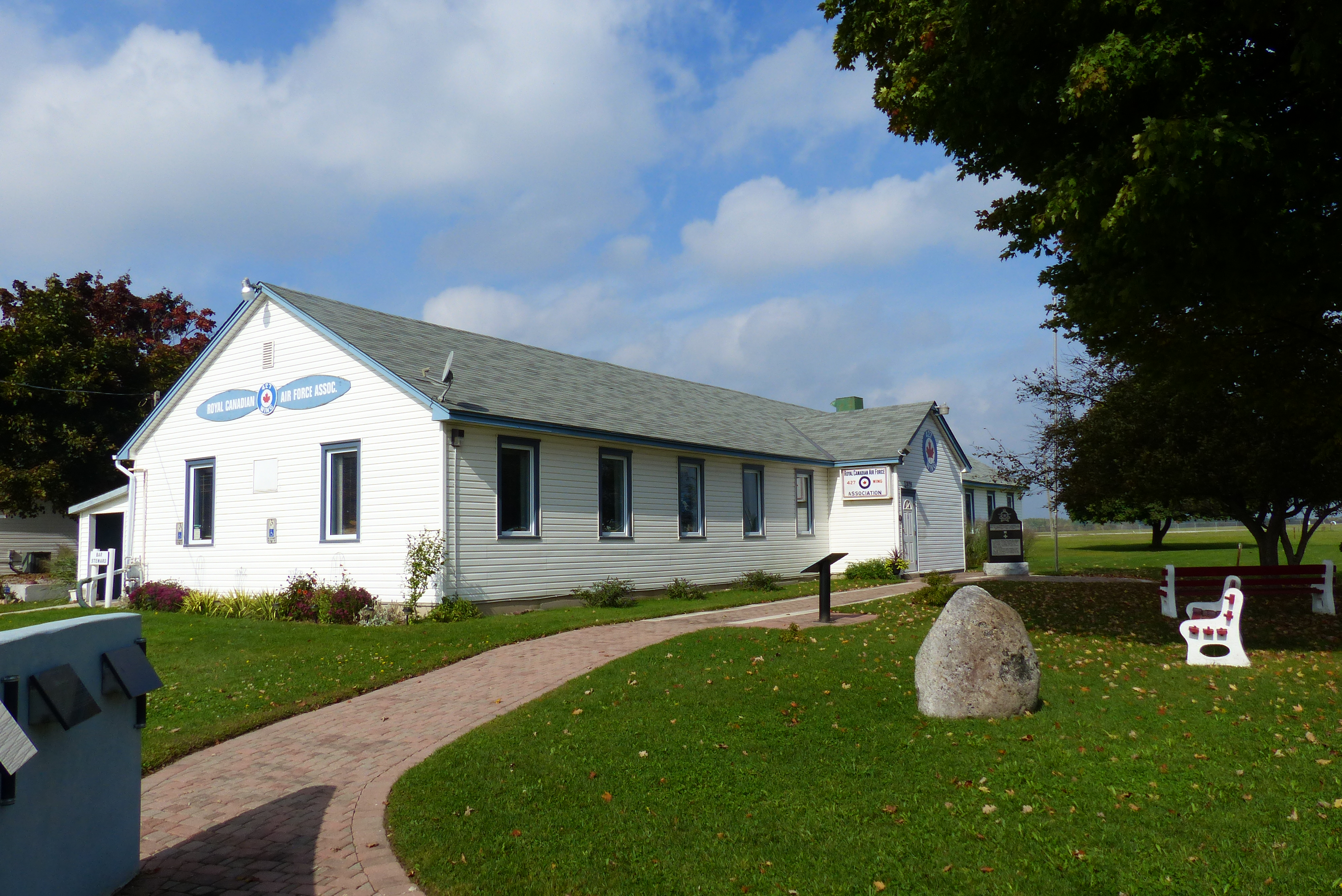 Original BCATP building from 1940 at London International Airport in excellent condition in 2014. Currently the location of the 427 Wing of the RCAFA and the Secrets of Radar Museum. Taken with permission of 427 (London) Wing - Air Force Association of Canada